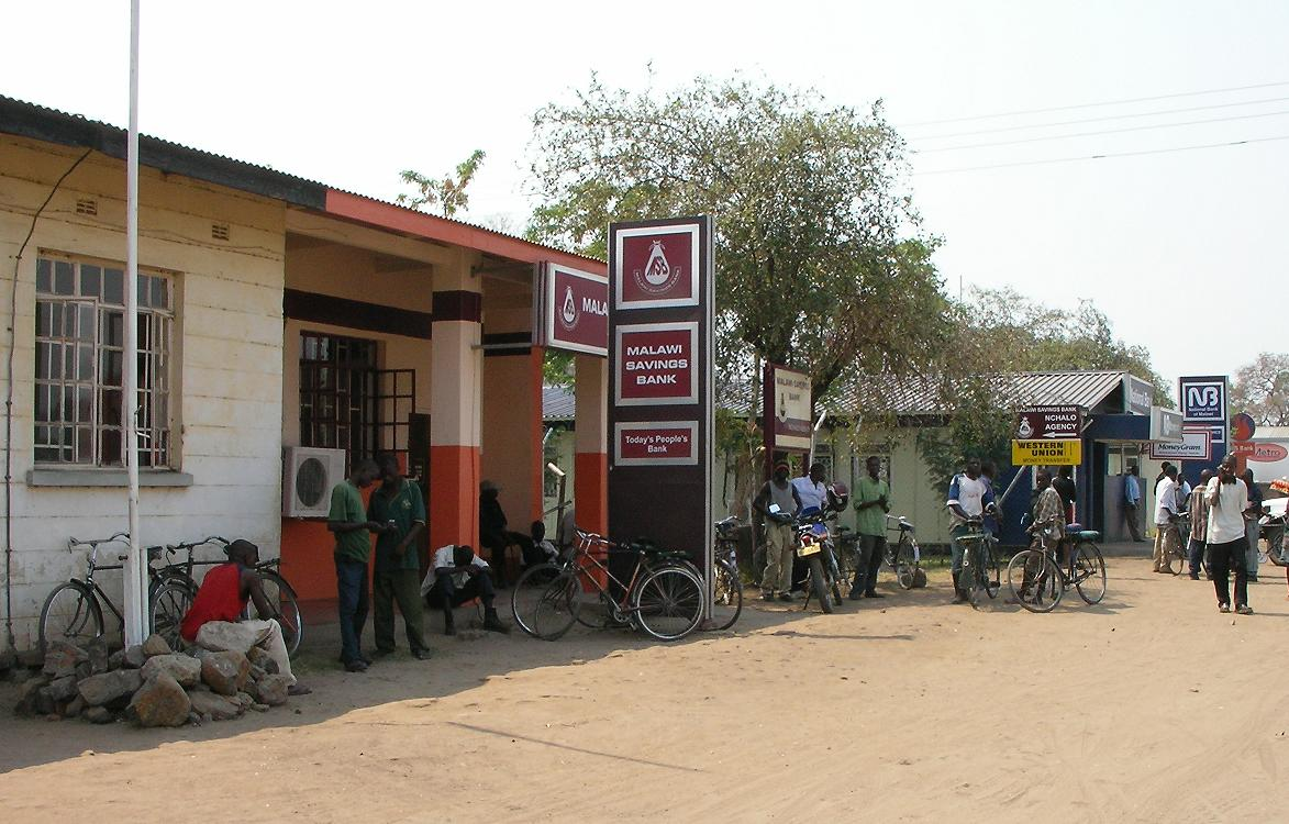 Banks on the east side of the main street through Nchalo, Chikwawa District, Malawi. Camera is pointing south.